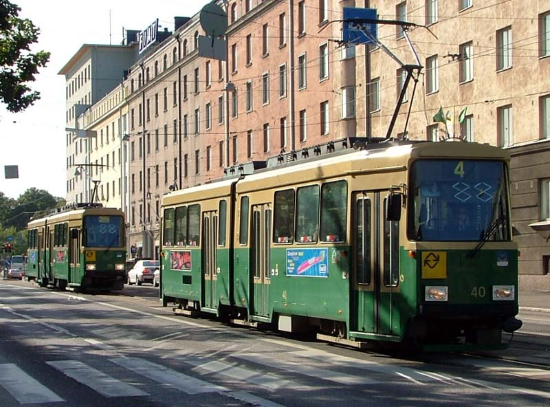 Old 1970s trams (type Valmet Nr I) in Helsinki, Finland, in the Töölö district.